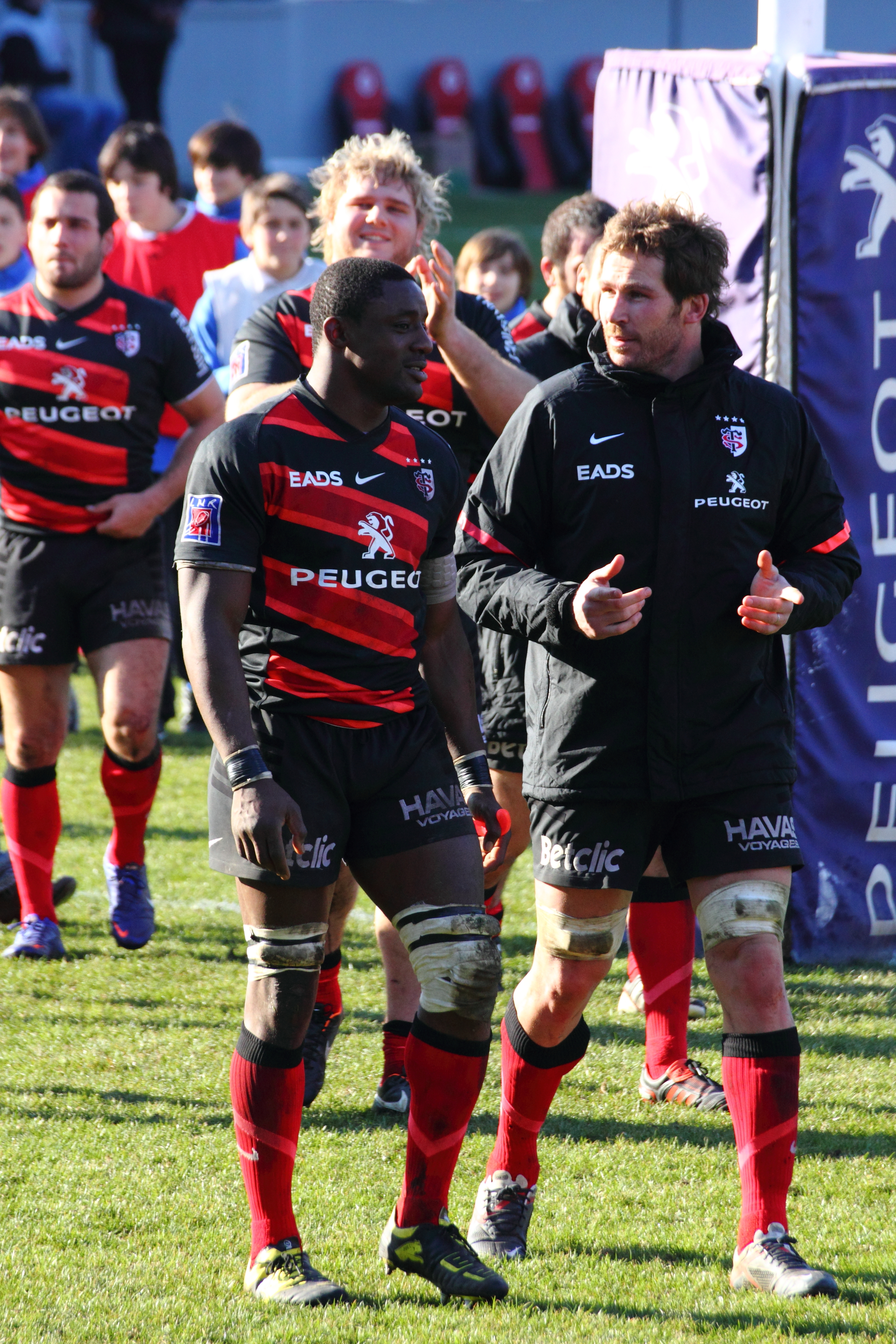 Top 14 — 18 February 2012, Stade Ernest-Wallon. Match between: Stade toulousain — Sporting union Agen Lot-et-Garonne